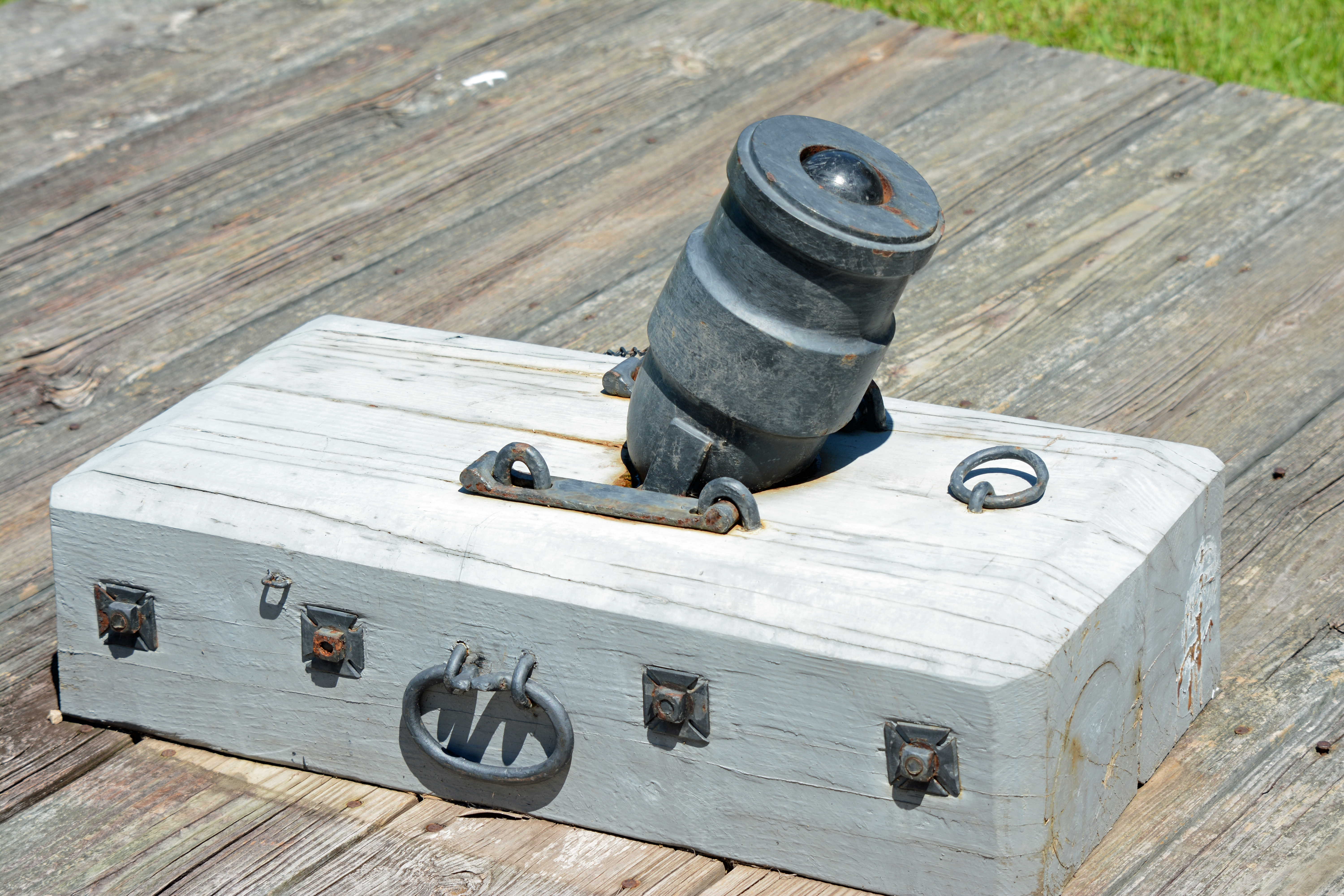 A Coehorn mortar at Fort King George, Darien, Georgia, US